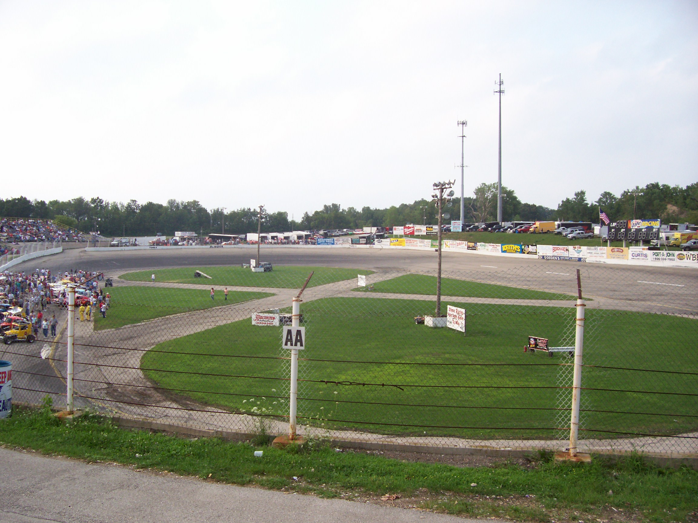 Image of the Slinger Super Speedway in Slinger, Wisconsin. I took this image myself. There is a car show of vintage 1970s cars happening on the frontstretch before the weekly races.